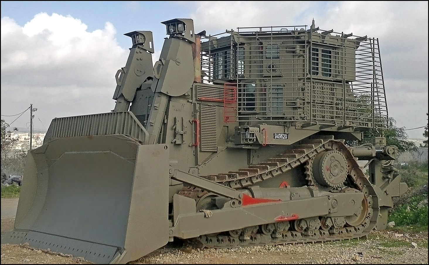 IDF Caterpillar D9 armored bulldozer of the Israel Defense Forces